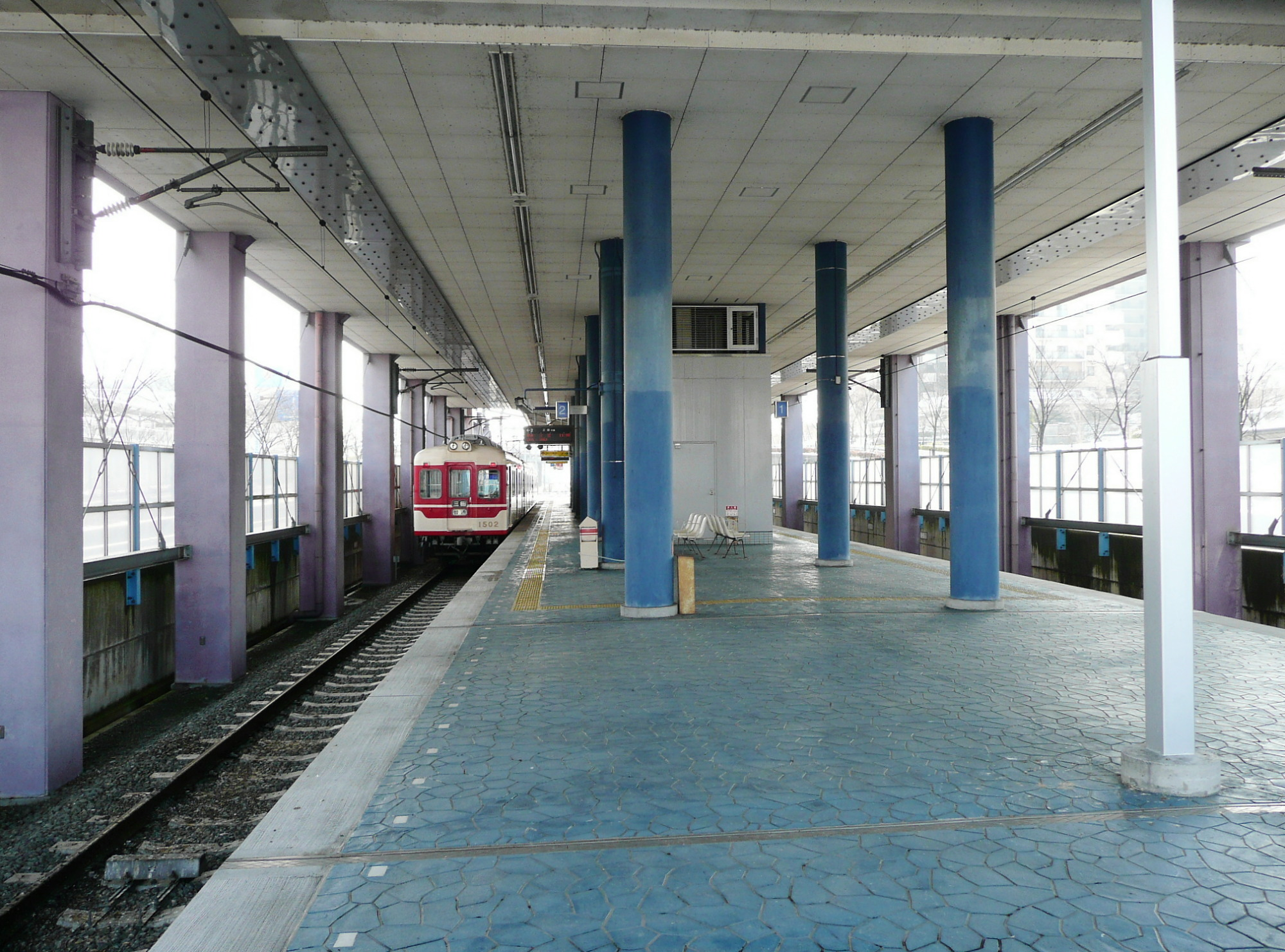 Kobe Electric Railway Woody Town Chuo Station platform